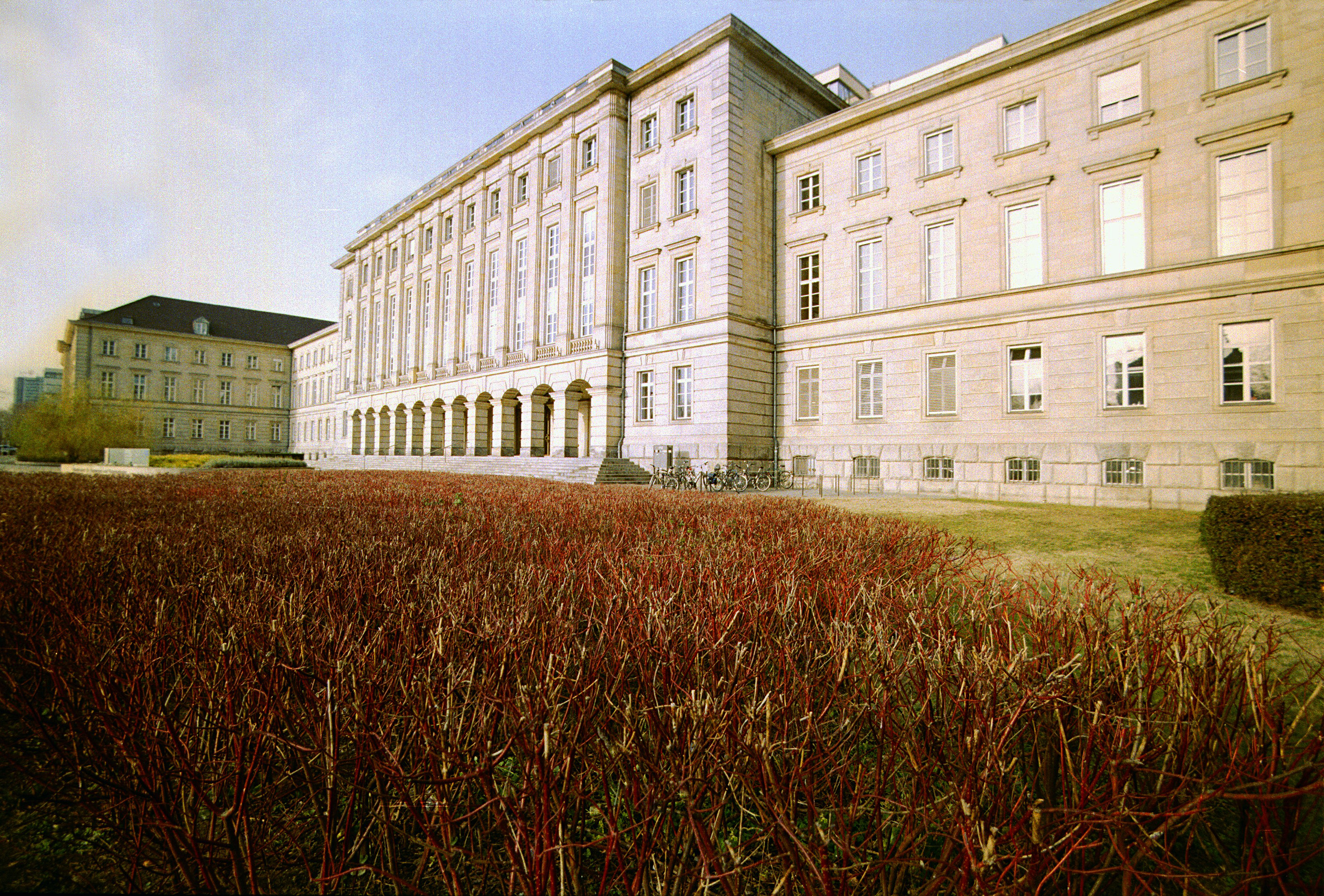 Ernst-Reuter-Haus, Berlin, Seitenansicht. Januar 2018.